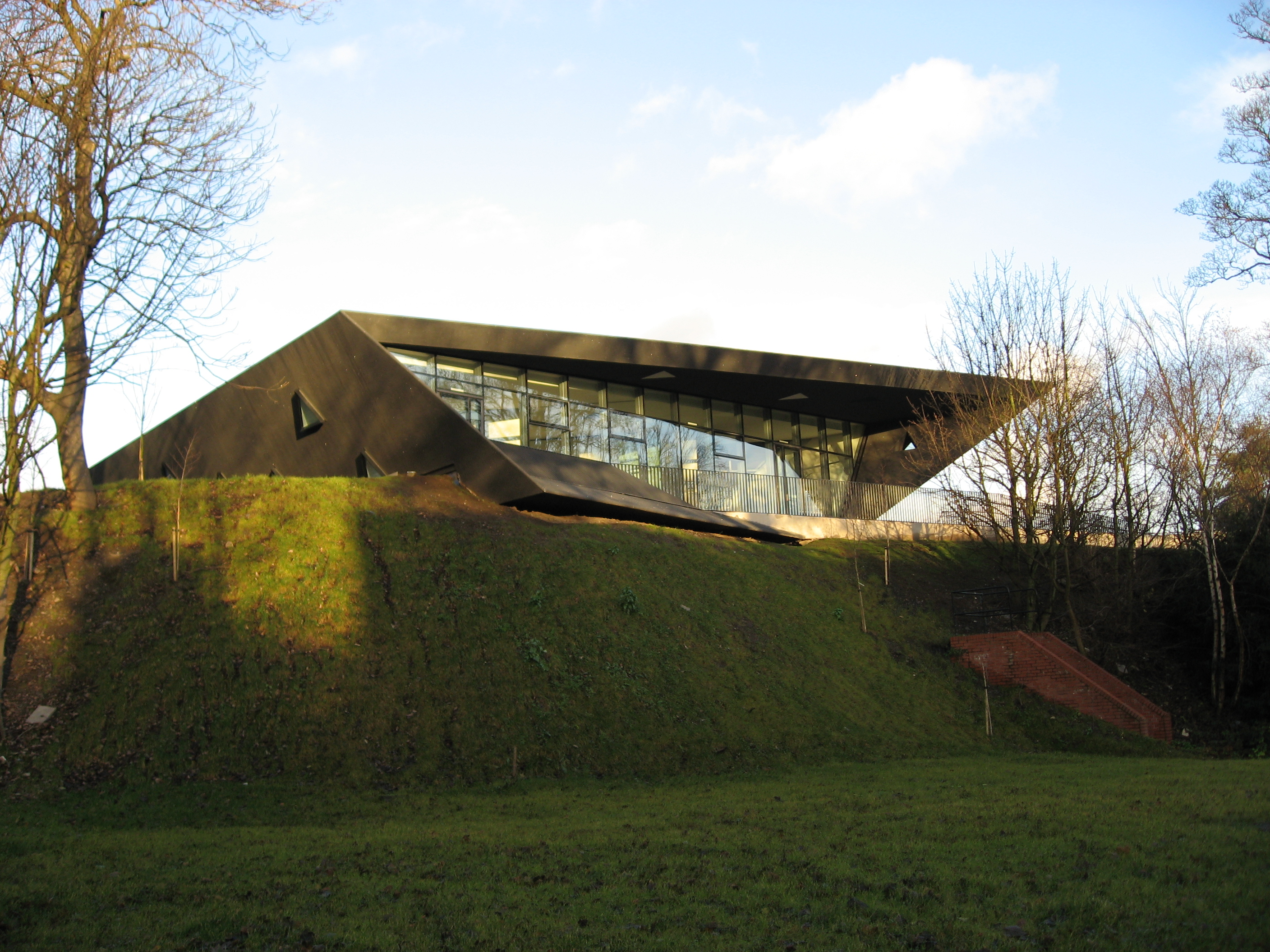 Maggie's Centre Kirkcaldy by Zaha Hadid